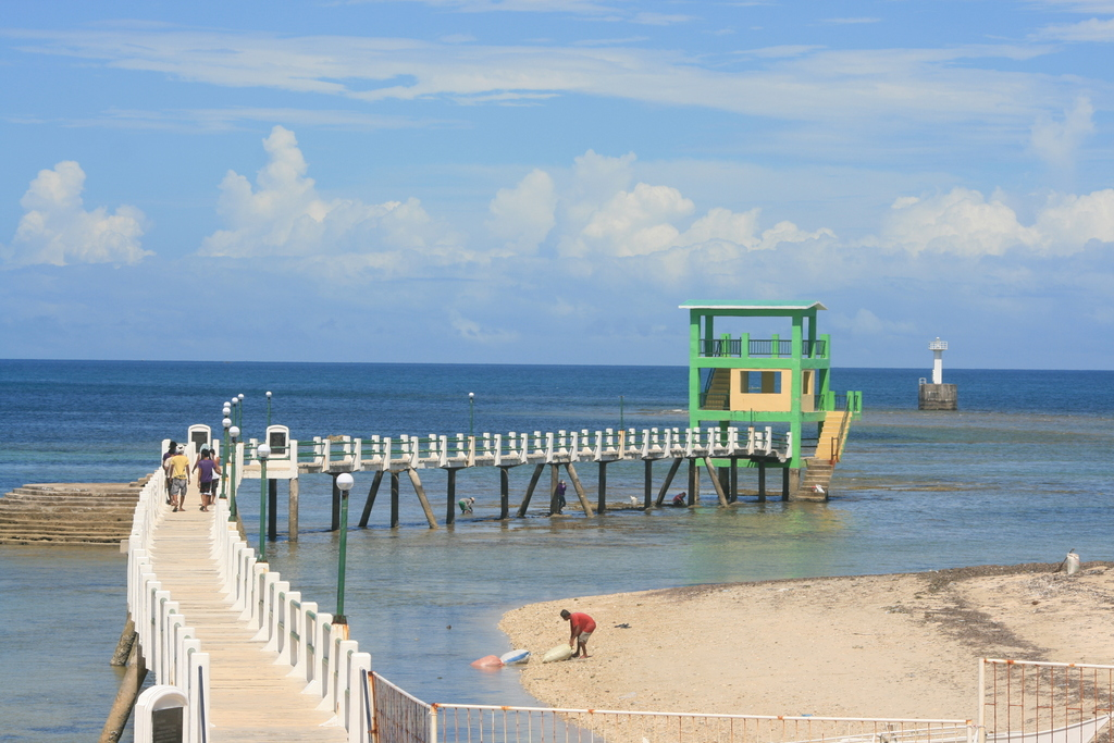 Beach and walkway at Madridejos, Cebu, Philippines. Madridejos light station further off-shore